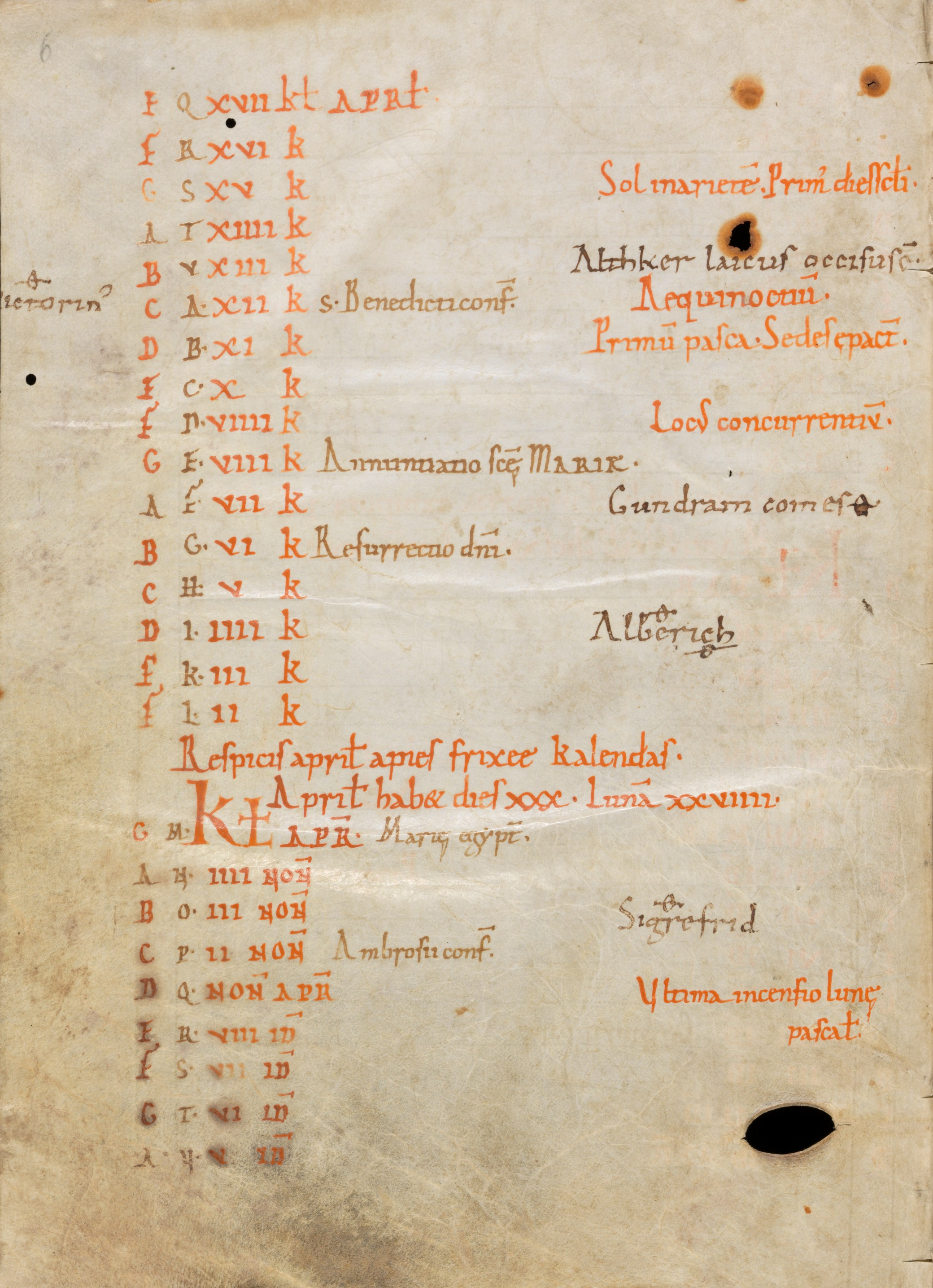 Calendarium page, March to April (16 March [XVII Kalendae Aprilis] to 9 April [IX Idus Aprilis]) C.f.: Chrysogonus Waddell, The primitive Cistercian breviary: (Staatsbibliothek zu Berlin, Preussischer Kulturbesitz, Ms. Lat. Oct. 402) (2007), 91f. [16.03] E Q xvii kl aprilis [17.03] F R xvi k [18.03] G S xv k Sol inariete Primum dies scli [19.03] A T xiiii k [20.03] B V xiii k Althker laicus occisus est [21.03] C A xii k s. Benedictio conf. Aequinoctium [obiit -ictorin-] [22.03] D B xi k Primum pasca. Sedes epact. [23.03] E C x k [24.03] F D viiii k Locus concurrentium [25.03] G E viii k Annuntiatio scte Mariae [26.03] A F vii k Gundram comes obiit [27.03] B G vi k Resurrectio domini [28.03] C H v k [29.03] D I iiii k obiit Alberich [30.03] E K iii k [31.03] F L ii k Respicis aprilis aries frixee kalendas. Aprilis habet dies xxx, luna xxviiii. [01.04] G M KL apr Mart. egypt. [02.04] A N iiii nonas [03.04] B O iii nonas obiit Sigefrid [04.04] C P ii nonas Ambrosii conf. [05.04] D Q nonas apr Ultima incensio lunae pascalis [06.04] E R viii idus [07.04] F S vii idus [08.04] G T vi idus [09.04] A V v idus